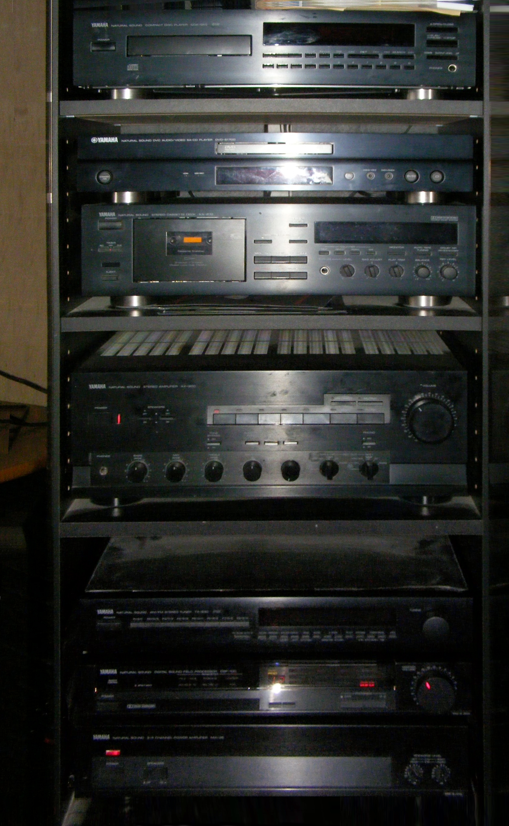 Stereoanlage- nun komplett Notizen beachten! DUAL 626 turntable with Ortofon Concorde cartridge Yamaha CDX-580 CD player Yamaha DVD-S1700 DVD player Yamaha KX 680 Cassette deck Yamaha AX900 pre/main amplifier Yamaha TX930 tuner Yamaha DSP-100 digital sound field processor Yamaha MX35 2ch/4ch power amplfier